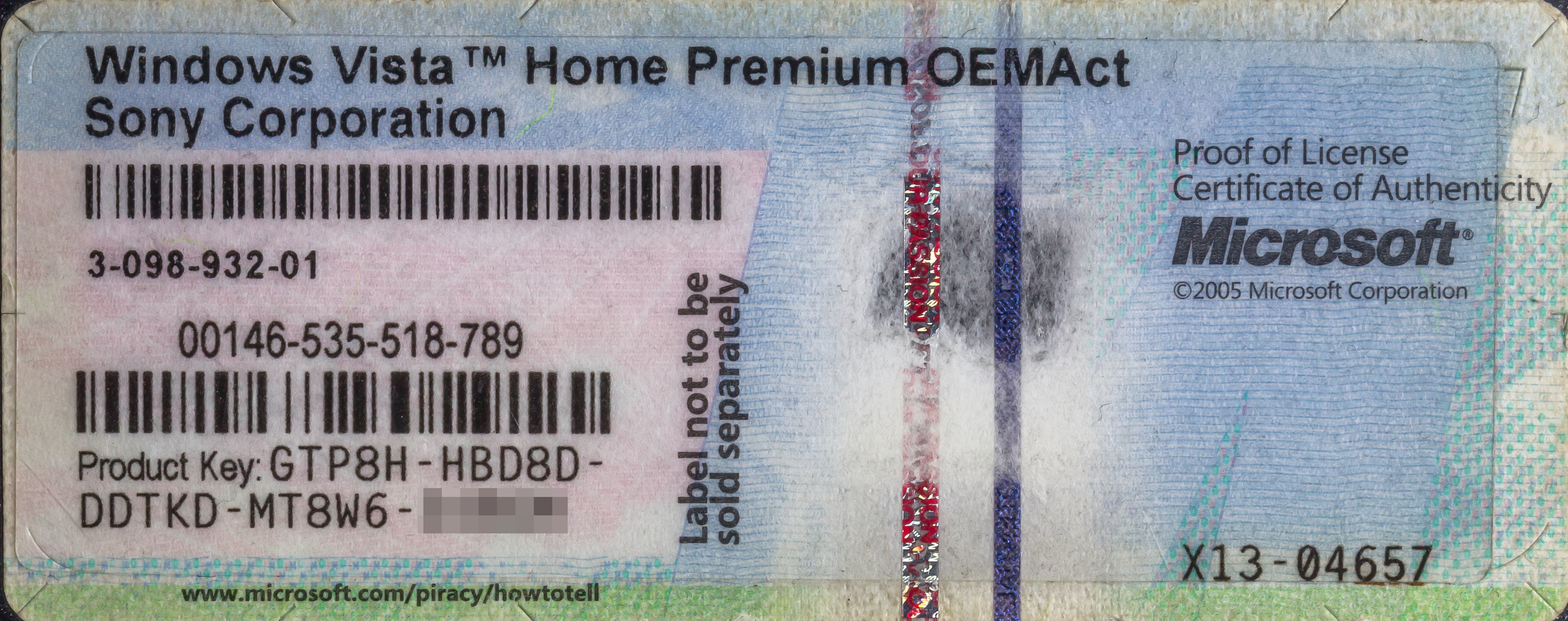 Proof of License Certificate of Authenticity for Windows Vista Home Premium OEM for Sony Corporation. Part of the software key pixelated.